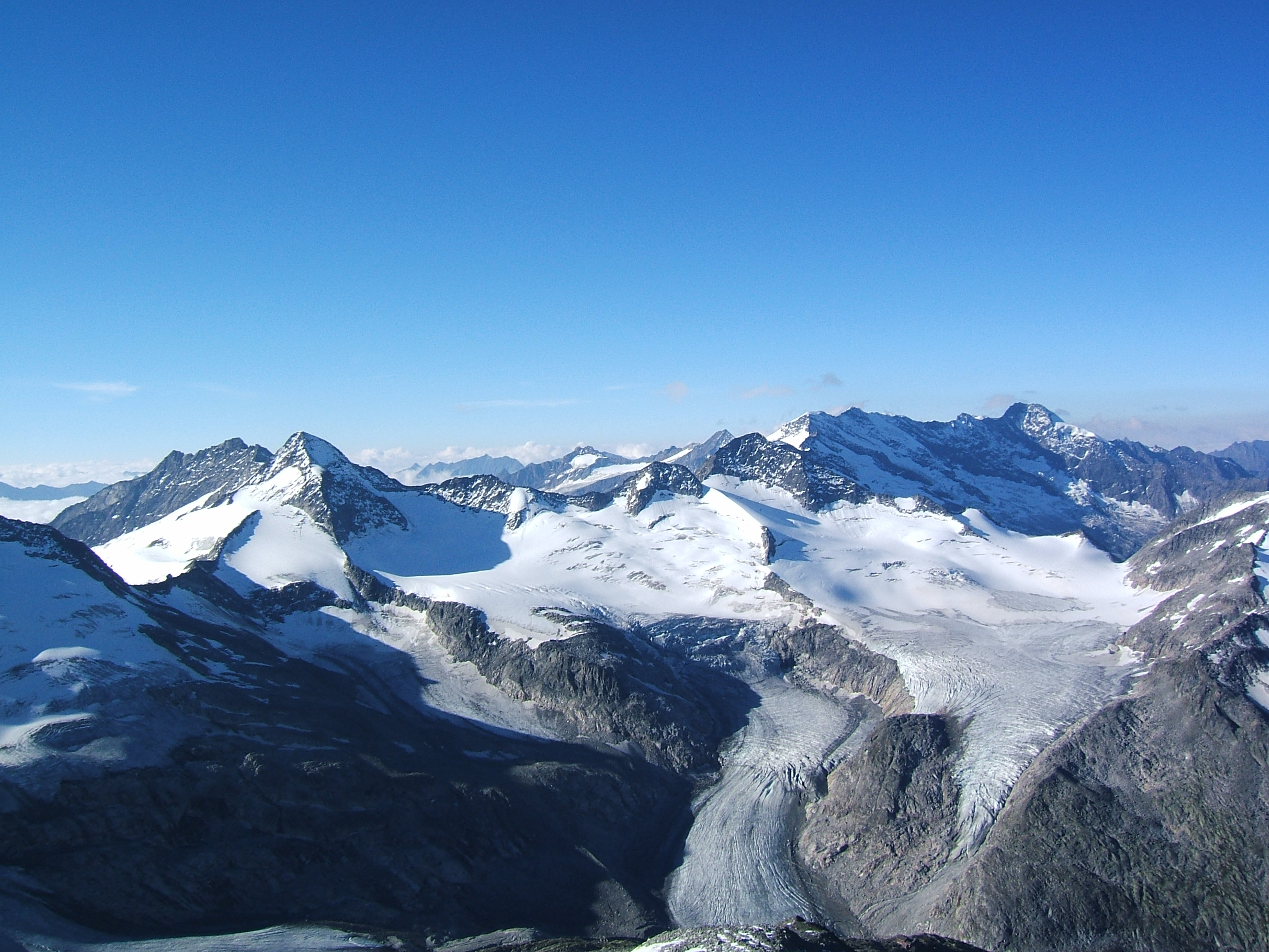 Obersulzbachkees as seen from north, from Keeskogel